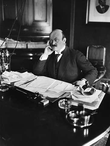 Norwegian stage actor and theatre director Halfdan Christensen in his office at the Nationaltheatret.